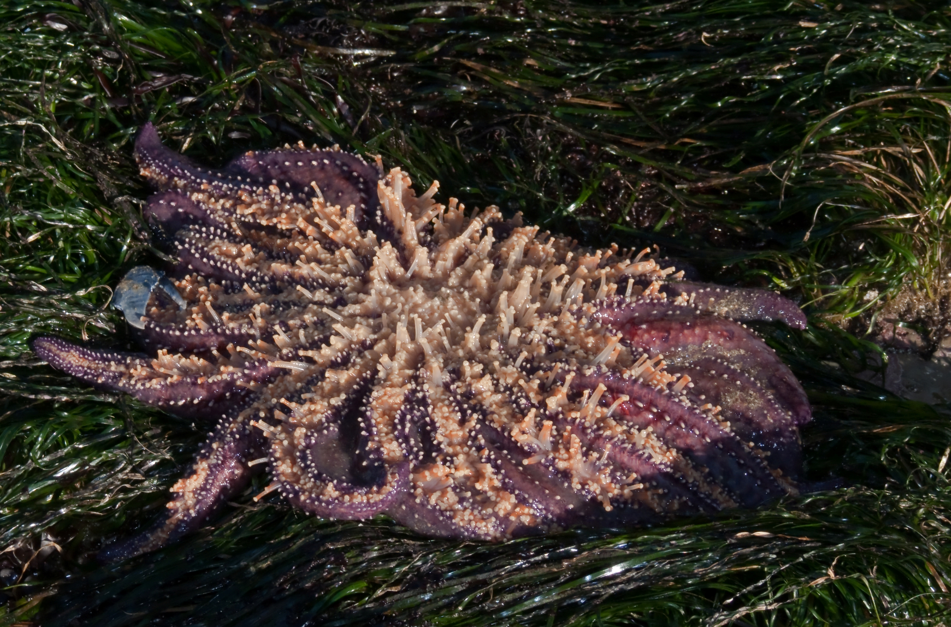 Sunflower sea star (Pycnopodia helianthoides), aka Twenty Ray Sea Star.